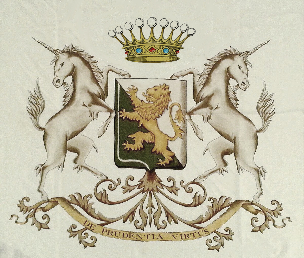 Seigneur du Plessix, paroisse d'Oudon, évêché de Nantes.